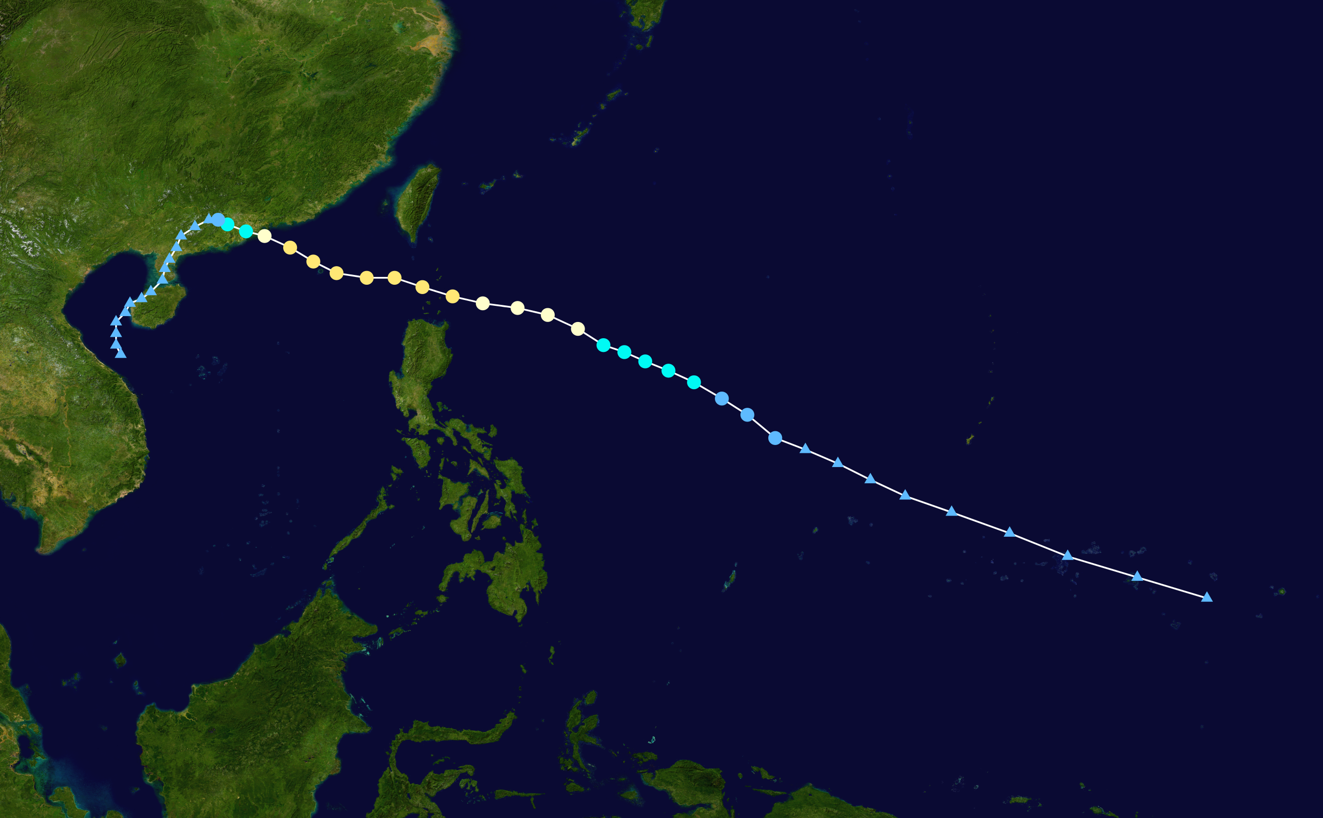 Track map of Typhoon Wanda of the 1962 Pacific typhoon season. The points show the location of the storm at 6-hour intervals. The colour represents the storm's maximum sustained wind speeds as classified in the Saffir–Simpson hurricane wind scale (see below), and the shape of the data points represent the nature of the storm, according to the legend below. Saffir–Simpson hurricane wind scale Tropical depression≤38 mph≤62 km/h Category 3111–129 mph178–208 km/h Tropical storm39–73 mph63–118 km/h Category 4130–156 mph209–251 km/h Category 174–95 mph119–153 km/h Category 5≥157 mph≥252 km/h Category 296–110 mph154–177 km/h Unknown Storm typeTropical cycloneSubtropical cycloneExtratropical cyclone / Remnant low / Tropical disturbance